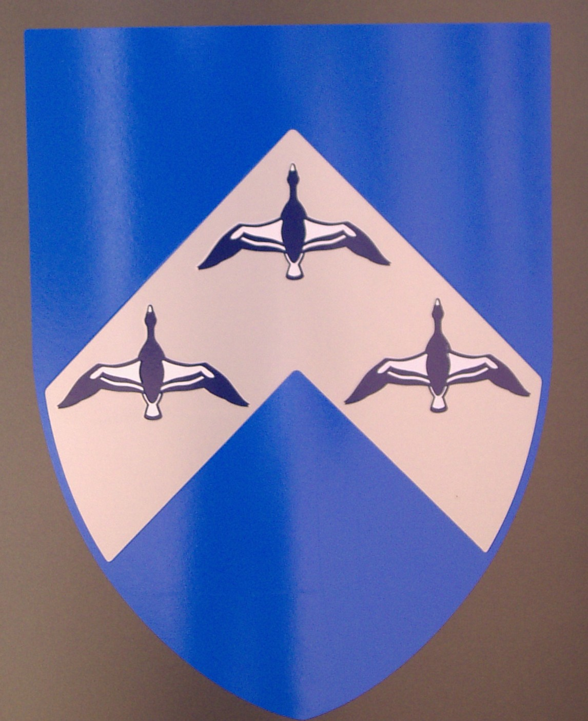 Farum Community, Zealand, Denmark. Community coat of arms. Photograph taken by User:Sir48, summer 2005. PLEASE NOTE: Don't use image-tools to remove the background. Community coat of arms are copyrighted according to Danish law.